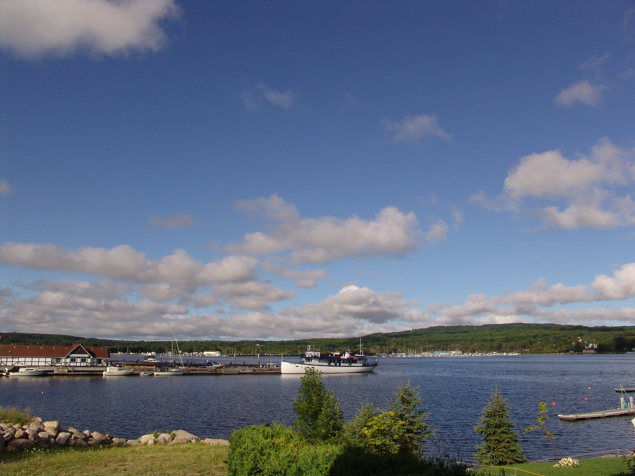 Penetanguishene Bay with the Town Docks, Ontario, Canada